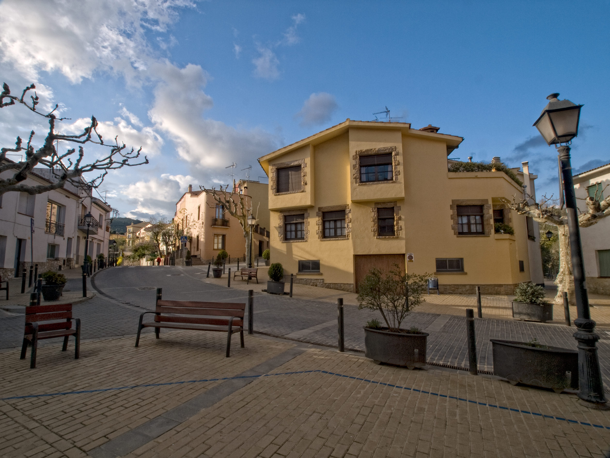 Sant Iscle de Vallalta City center (Catalonia, Spain)